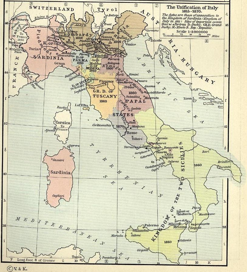 Map of unification of Italy, 1815-70